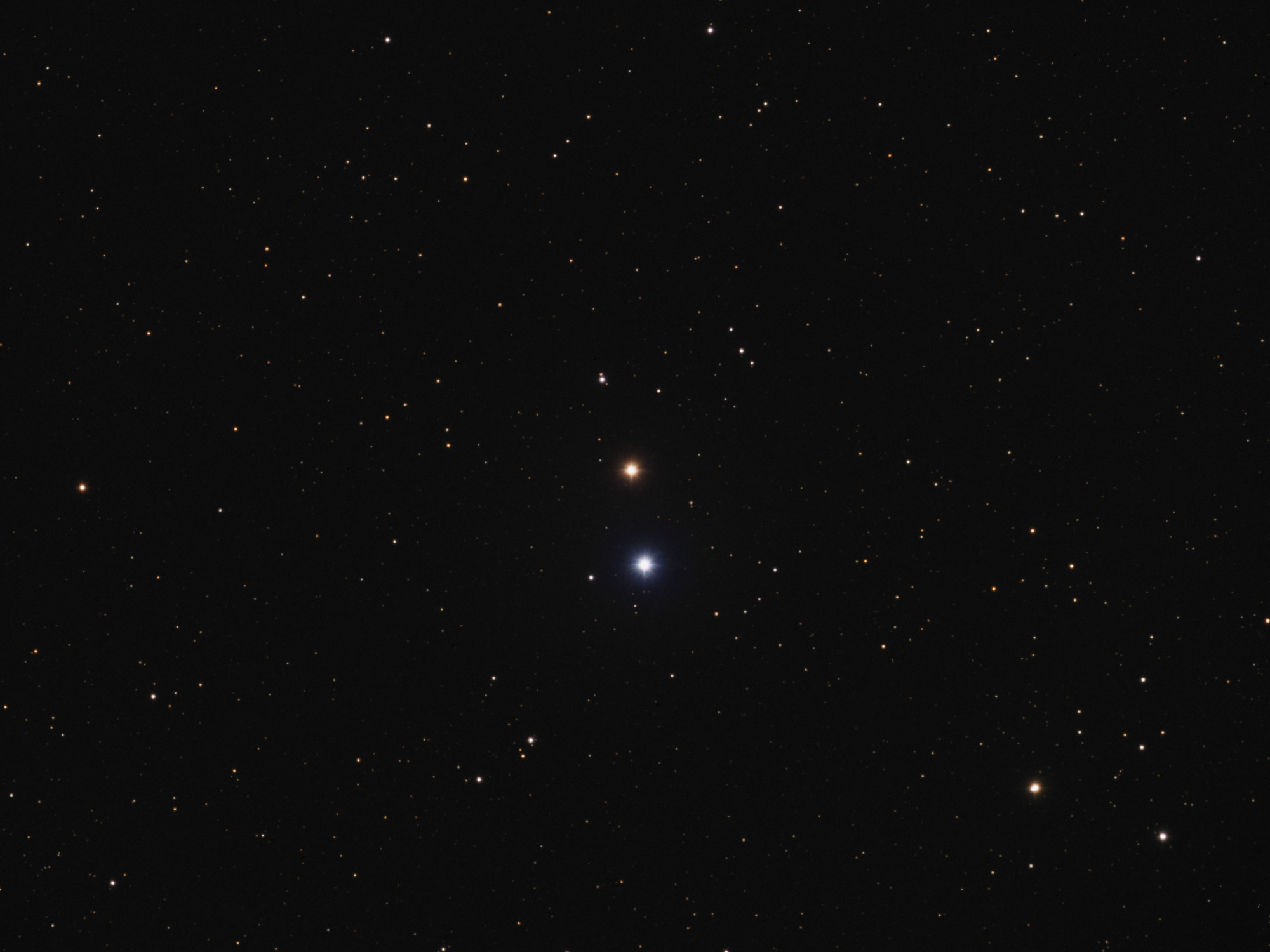 12 Camelopardalis in optical light